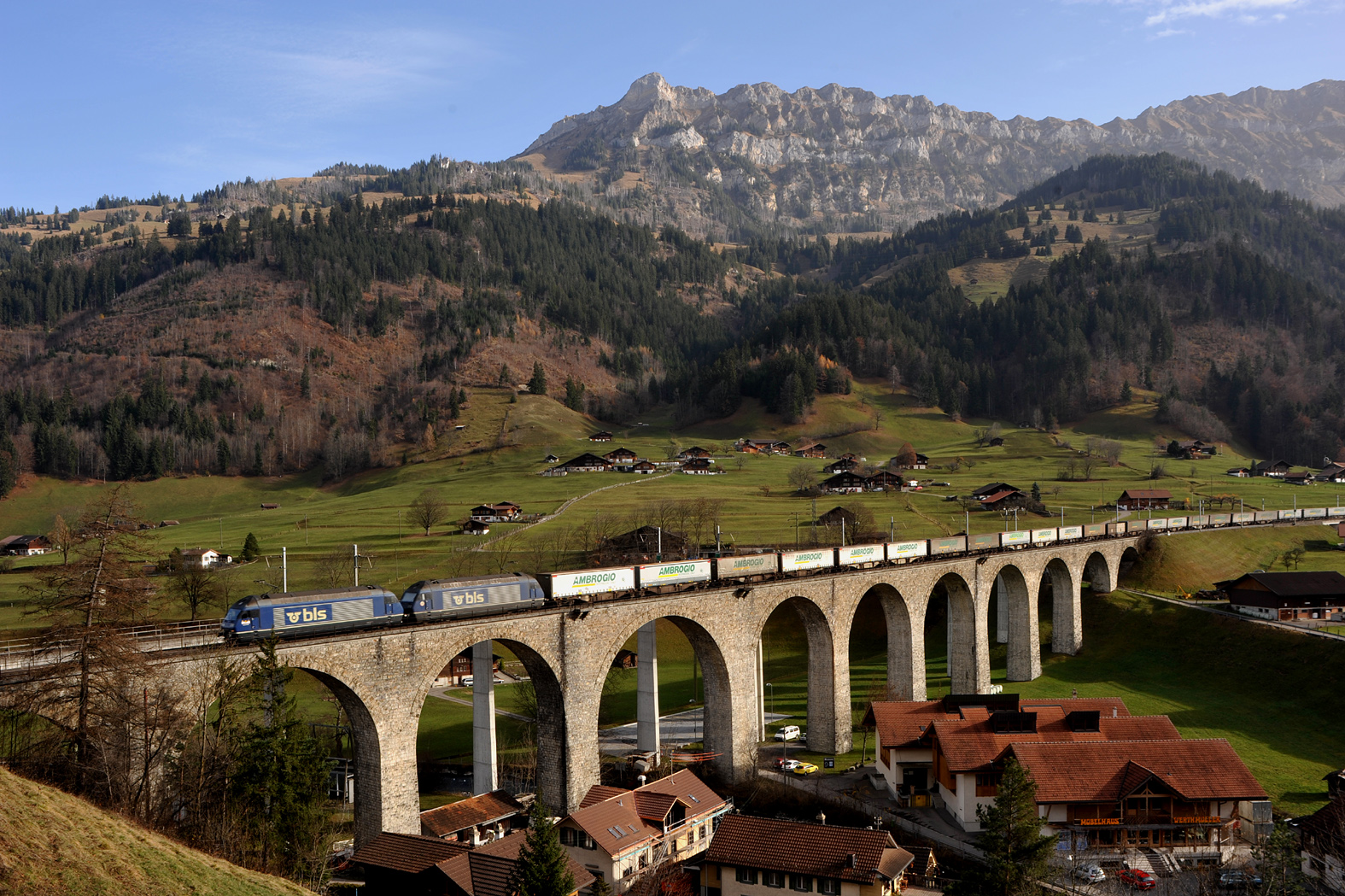 Kander viaducts of the BLS in Frutigen; the old viaduct from 1923 covers the new concrete beam bridge from 1982; container train with Re 465 double traction on downswing; Berne, Switzerland.